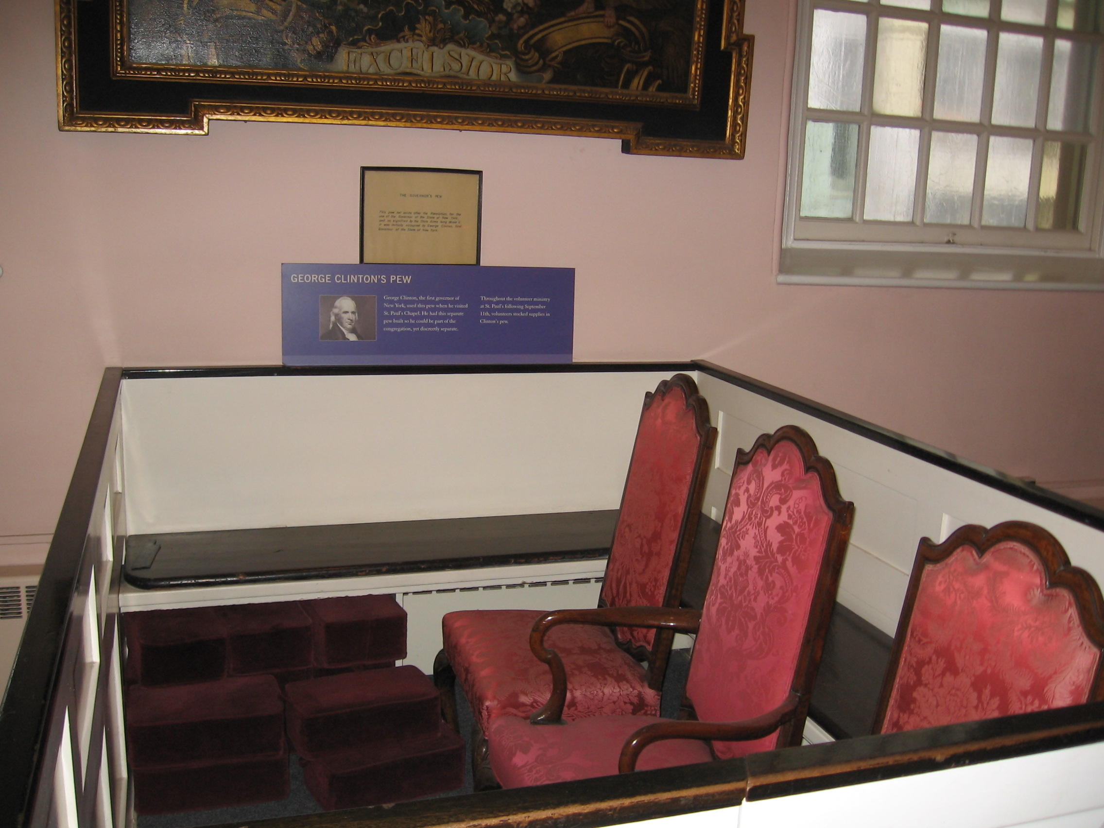 Pew of George Clinton in St. Paul's Chapel in lower Manhattan, New York City